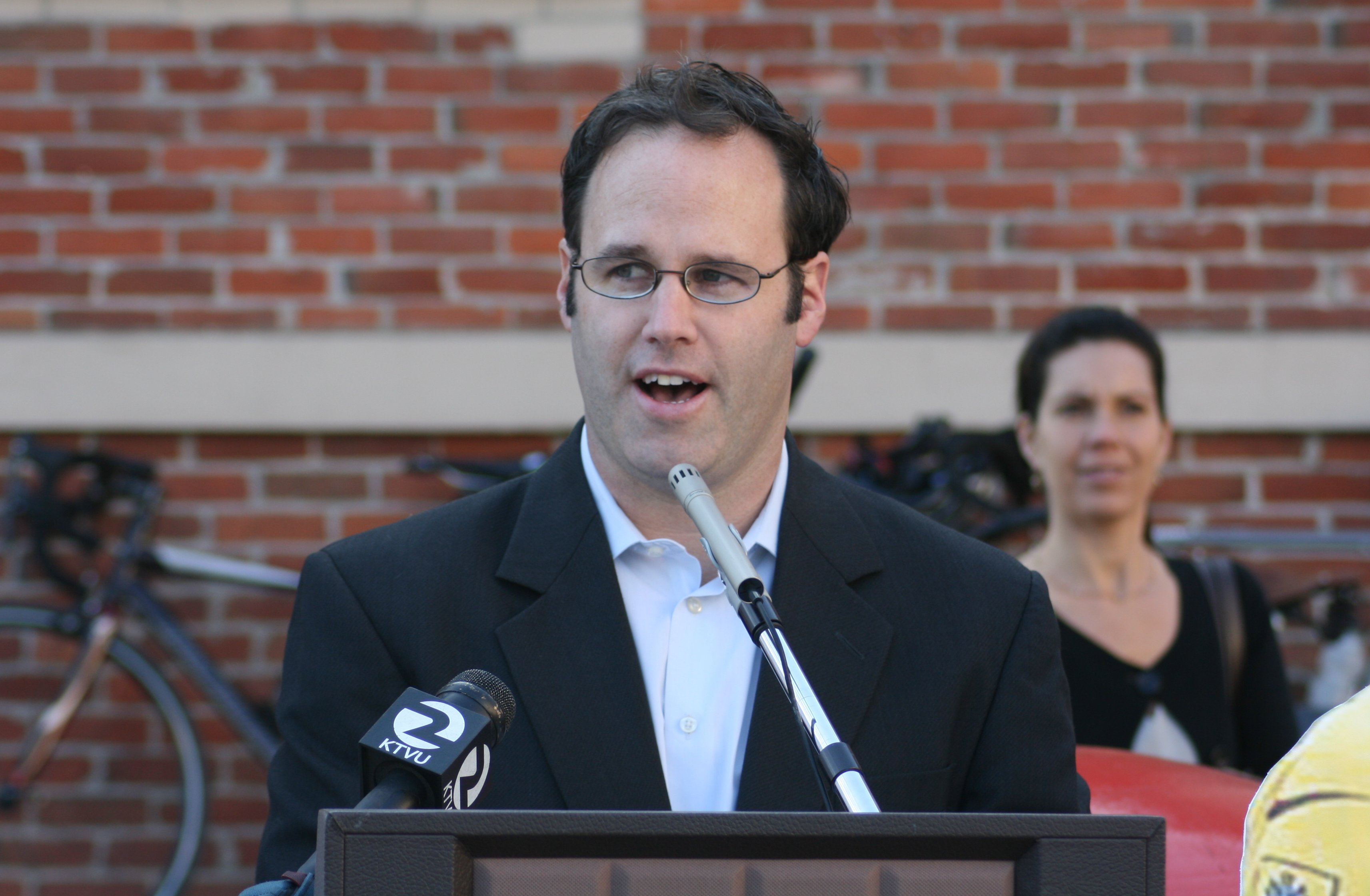 Ryan Coonerty, then-Mayor of Santa Cruz, speaking at a Tour of California press conference.